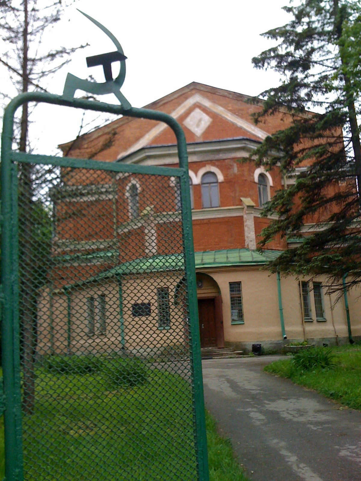 credit: Global Crop Diversity Trust